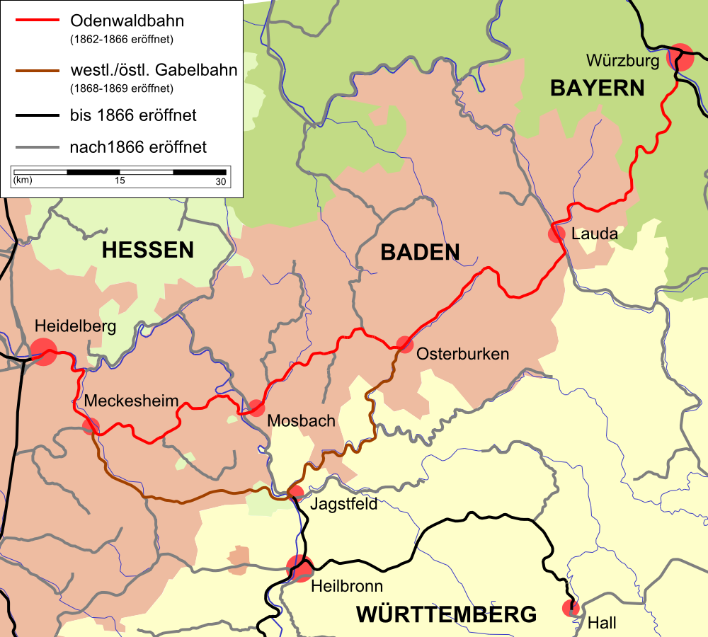 map of the Bad. Odenwald railway. please see User:Kjunix/BahnNWB for comments.